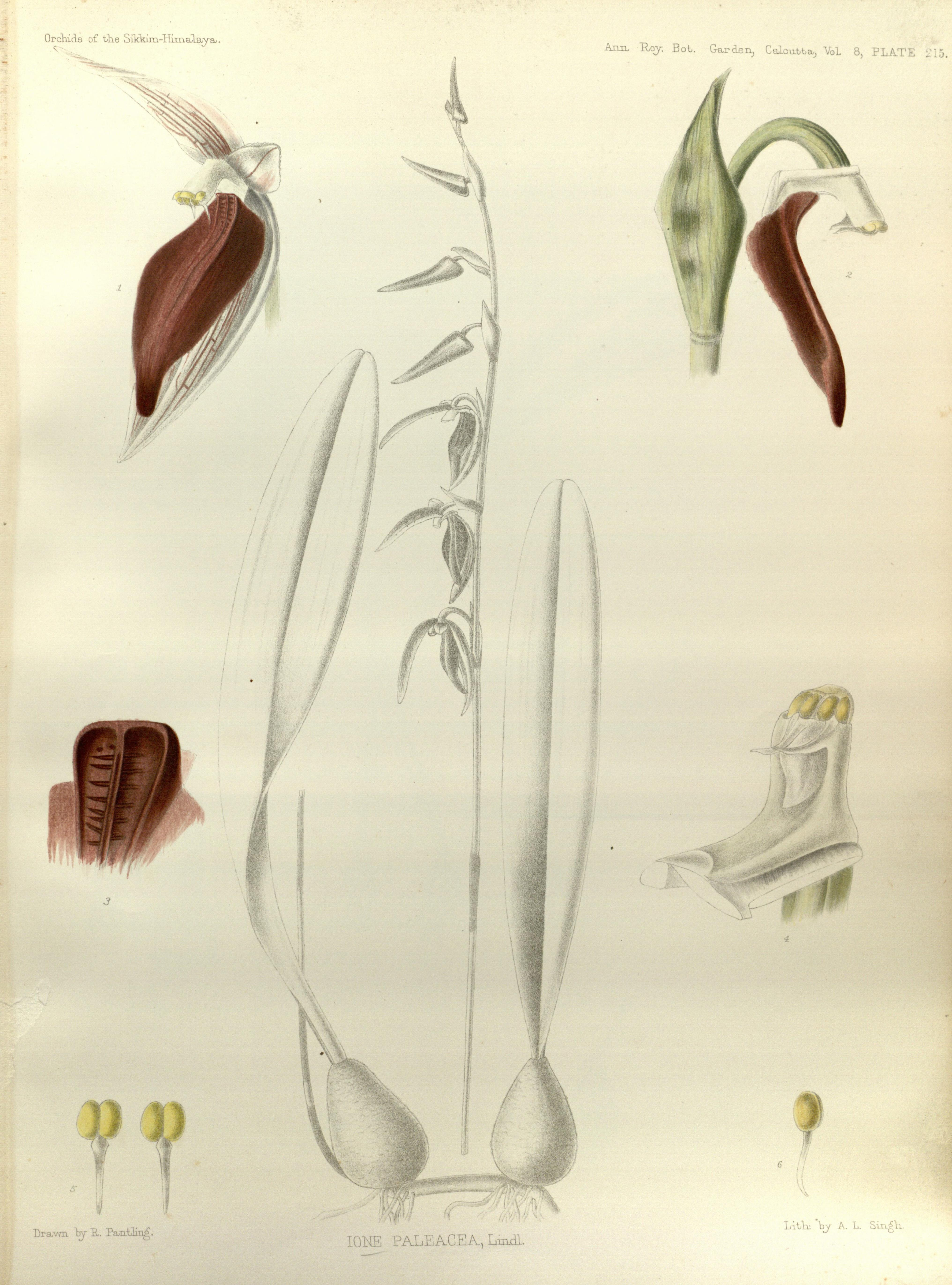 Illustration of Sunipia cirrhata (as syn. Ione paleacea)